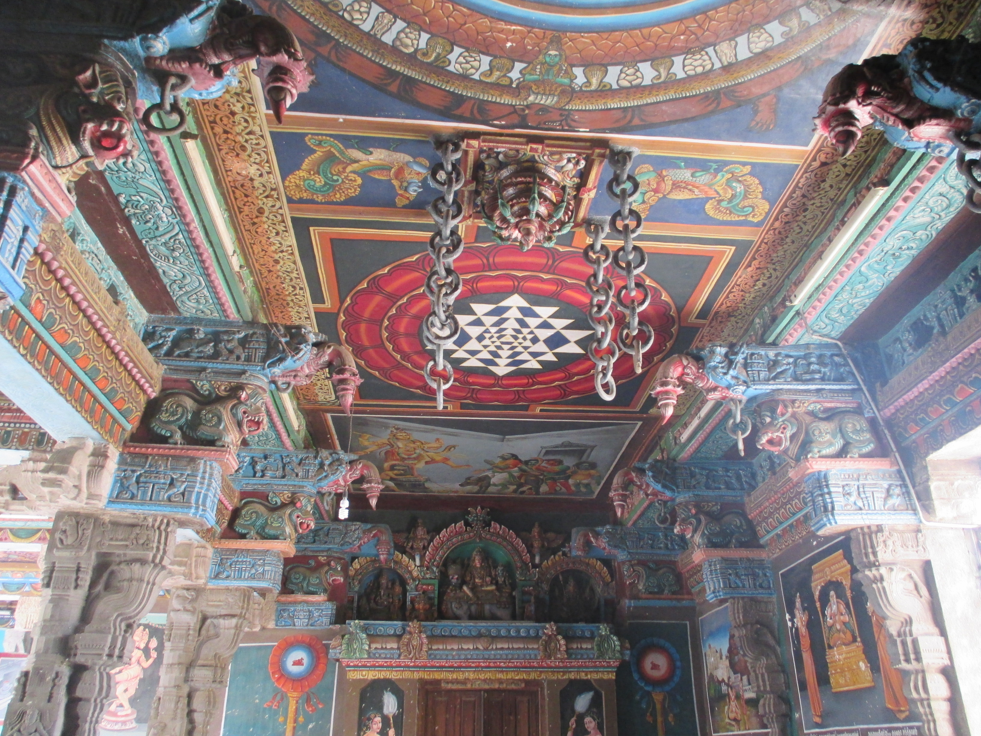 Thayumanavar Temple